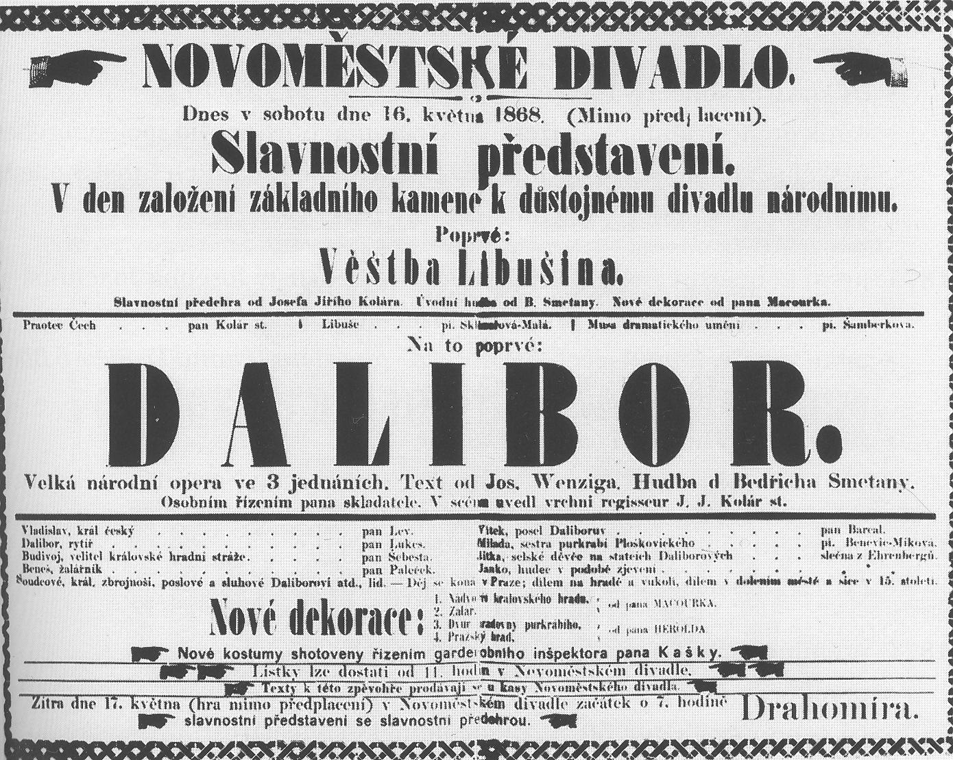 Theater poster for the world premiere of Smetana's Dalibor (1868)